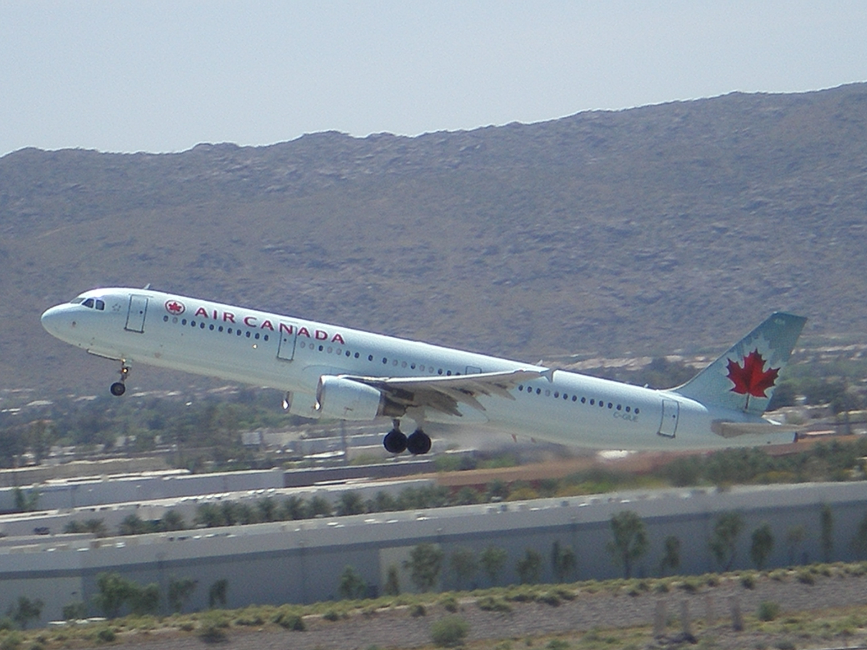 An Air Canada Airbus A321 on take off at PHX.